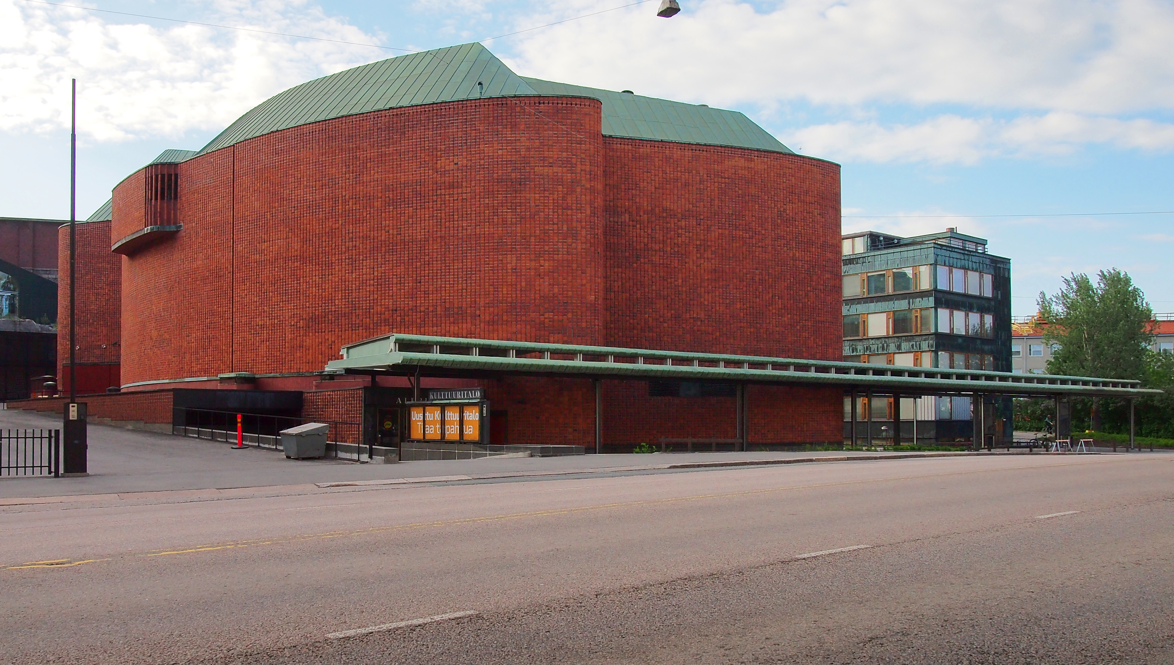 Helsinki Hall of Culture (Alvar Aalto, 1958) in May 2013.